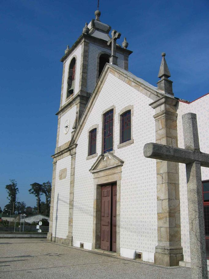 Church of Fânzeres – Gondomar - Portugal